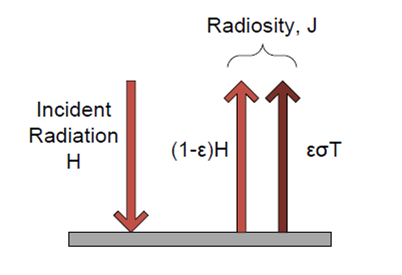 Radiosity includes both reflected and emitted radiation from a surface